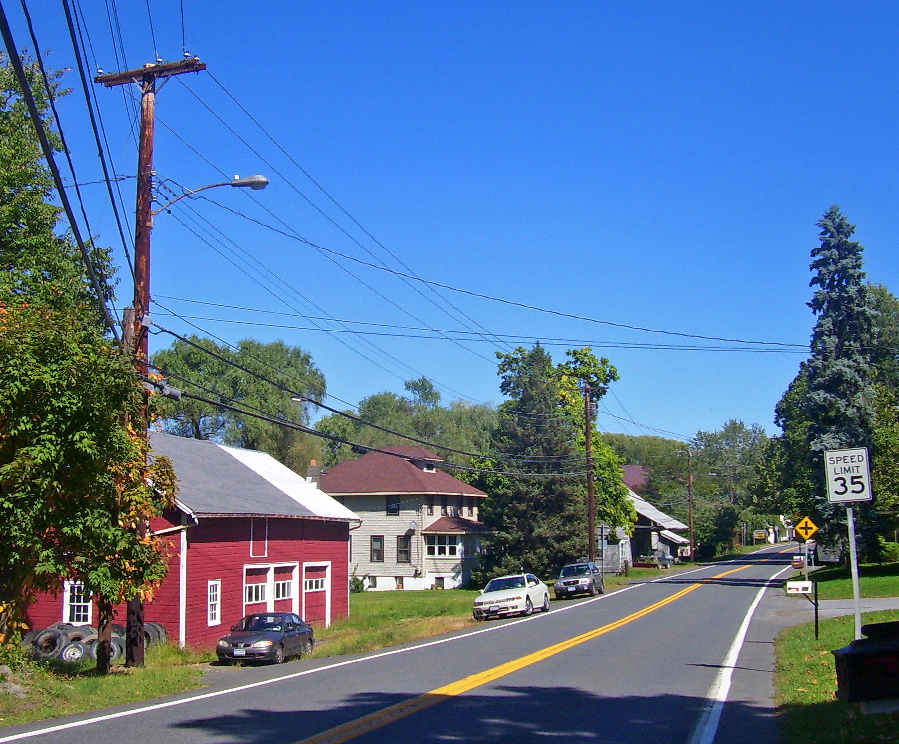 Clintondale, NY, USA, viewed looking east along US 44/NY 55